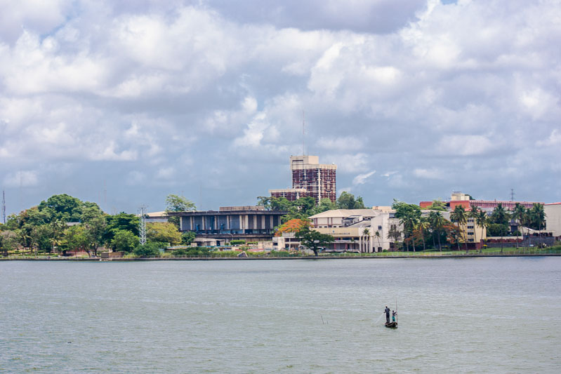 University of Lagos also known as Unilag, view from the Third Mainland Bridge. also seen is a fisher man boat and fishermen fishing.